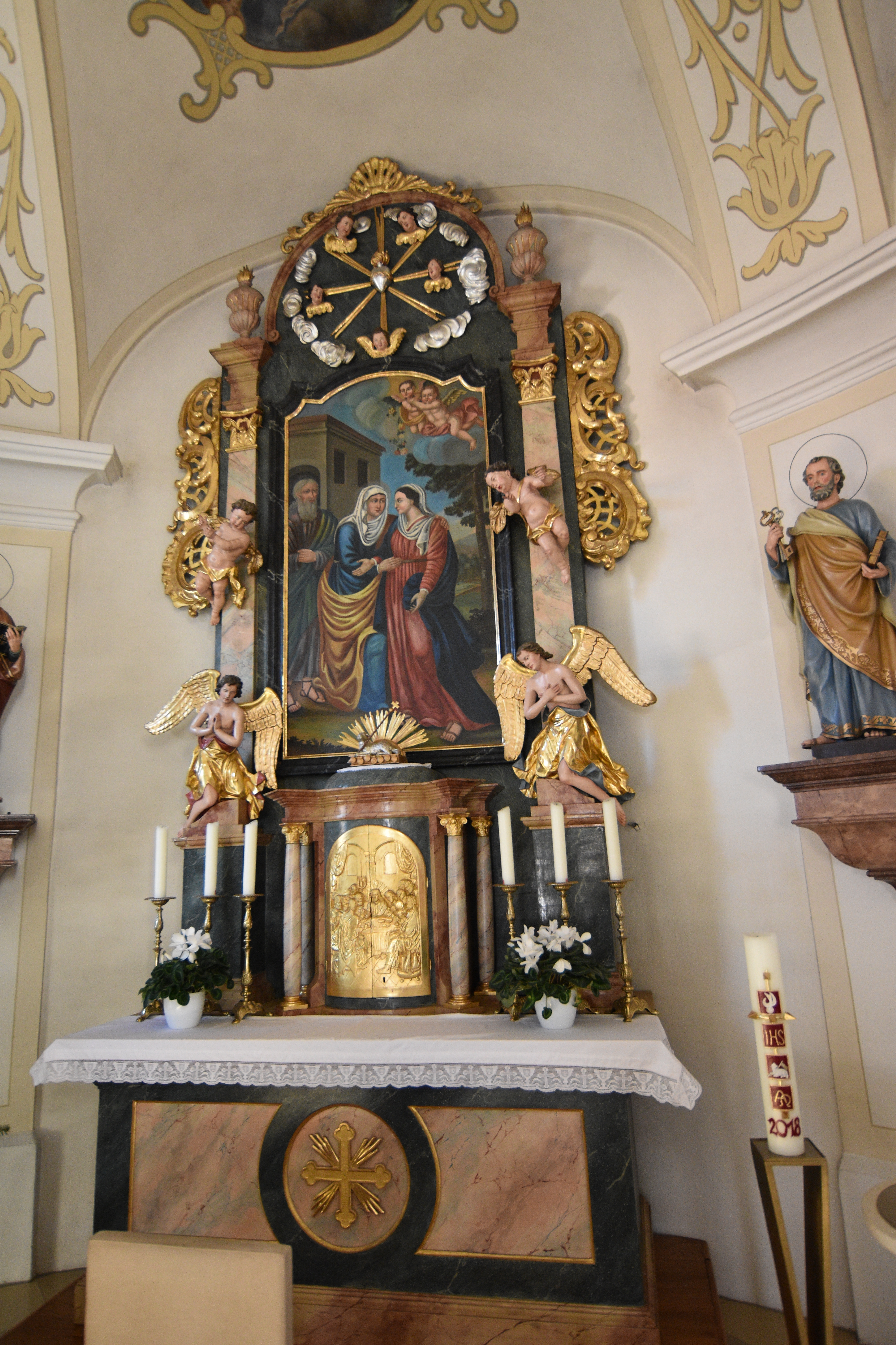 Church Dobersdorf Interior